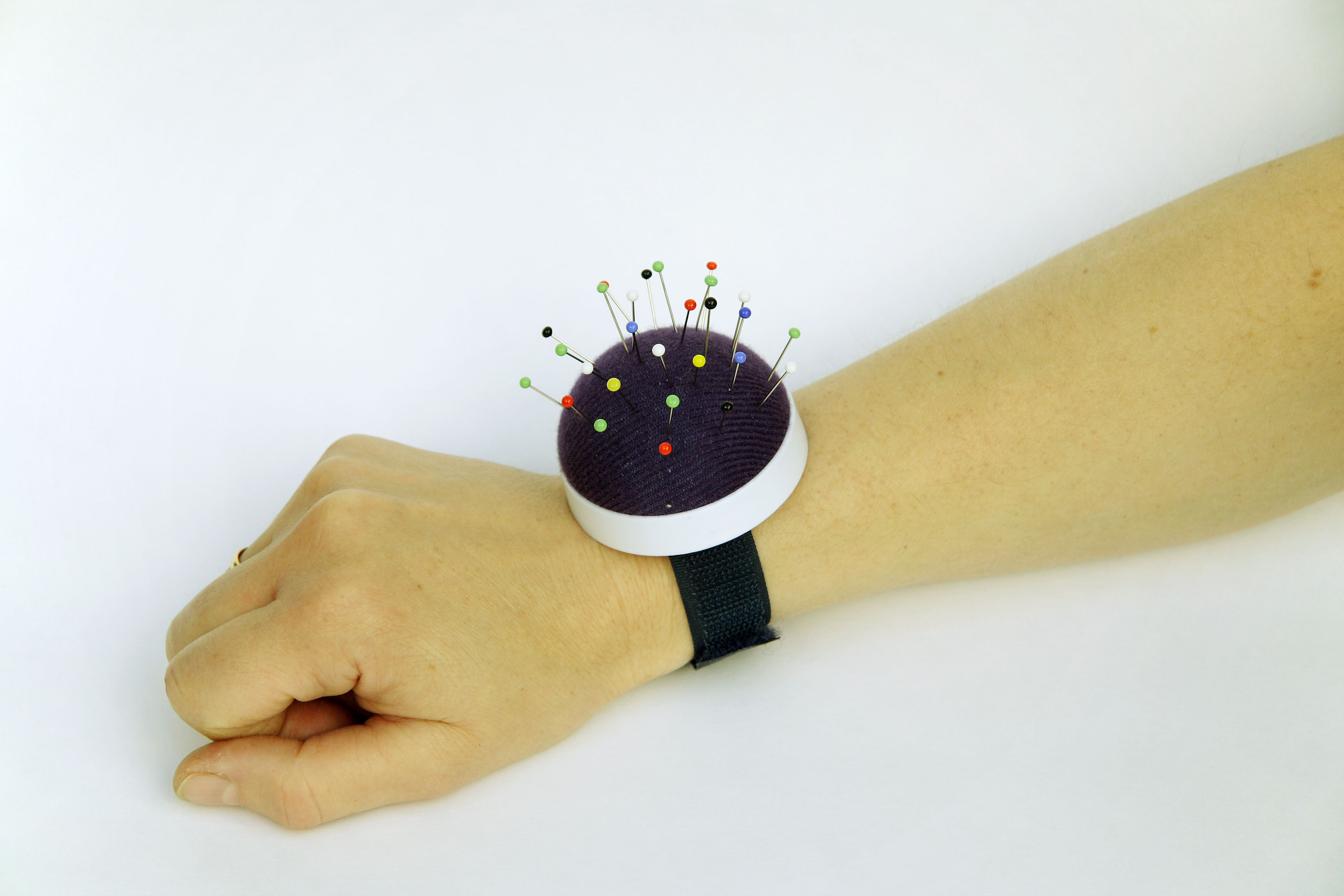 A wrist-worn, manufactured pincushion with a Velcro strap.